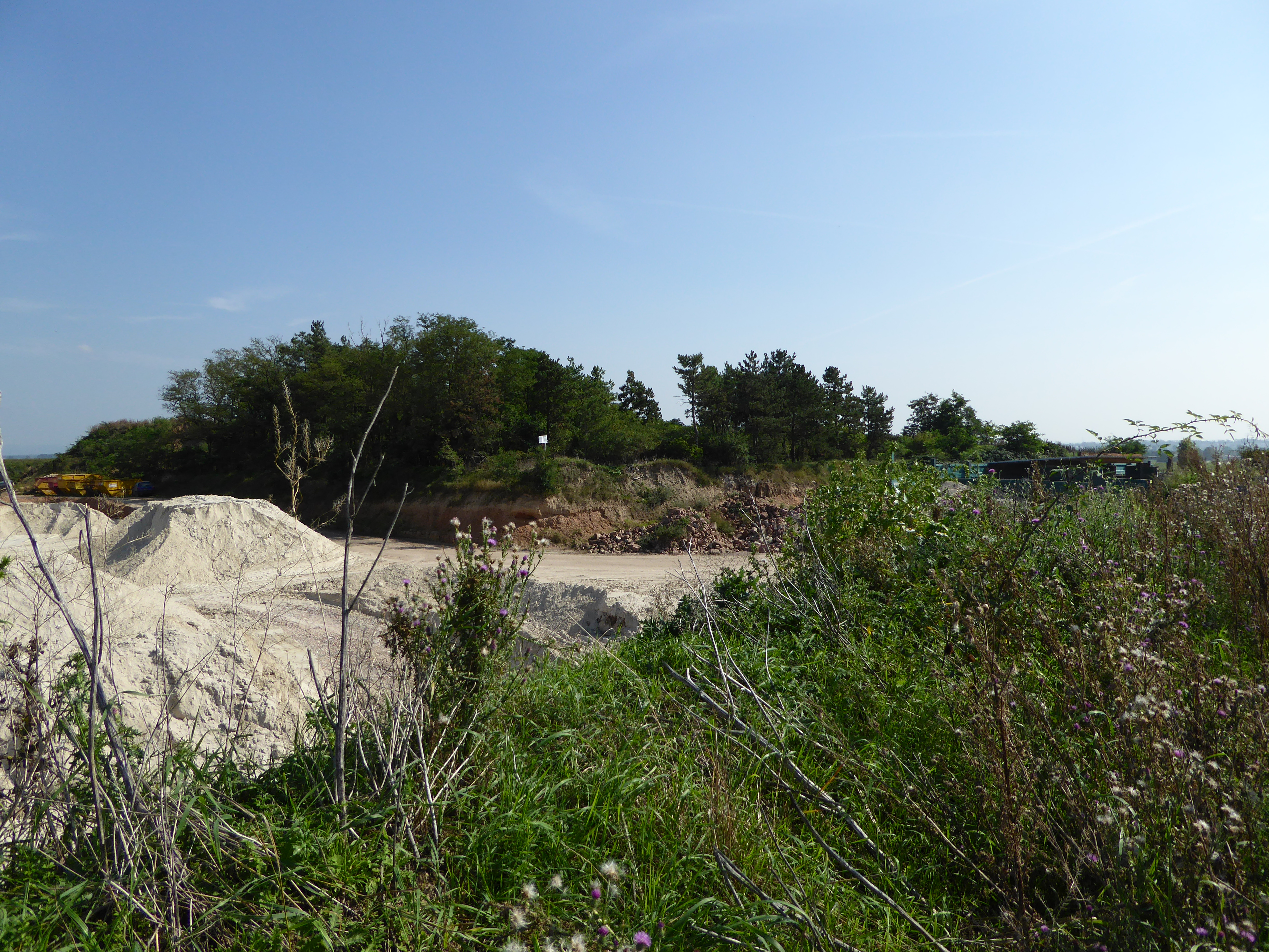 Alte Sandkaut near Dirmstein